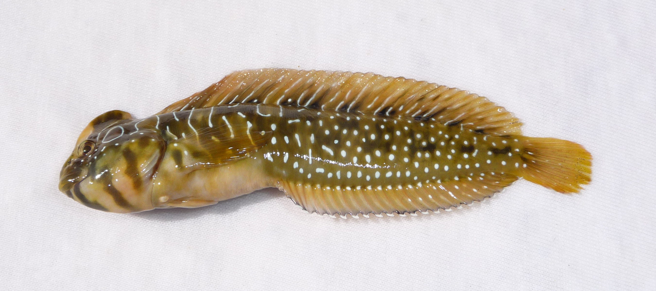 Salaria pavo (Risso, 1810). Peacock blenny male. This funny predatory fish was caught in the Black sea. Wet matter was used as a background to prevent damage to its skin. After very short photosession the fish was released back to the sea. This fish is able to change colour, like a chameleon. Geogoding of the location at which it was caught and photographed are the same.